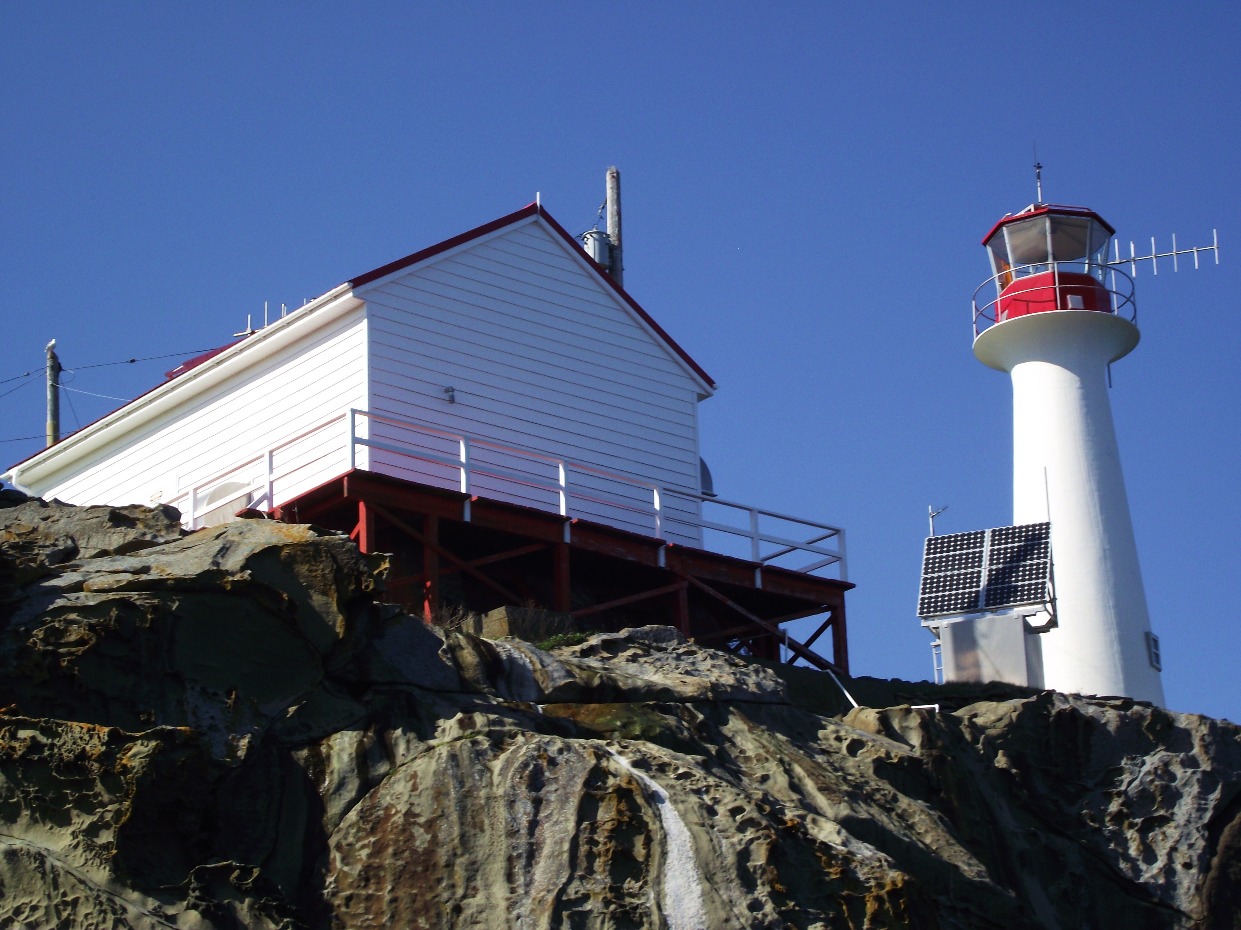 Chrome Island Lightstation off Denman Island, British Columbia Canada, viewed from the east.